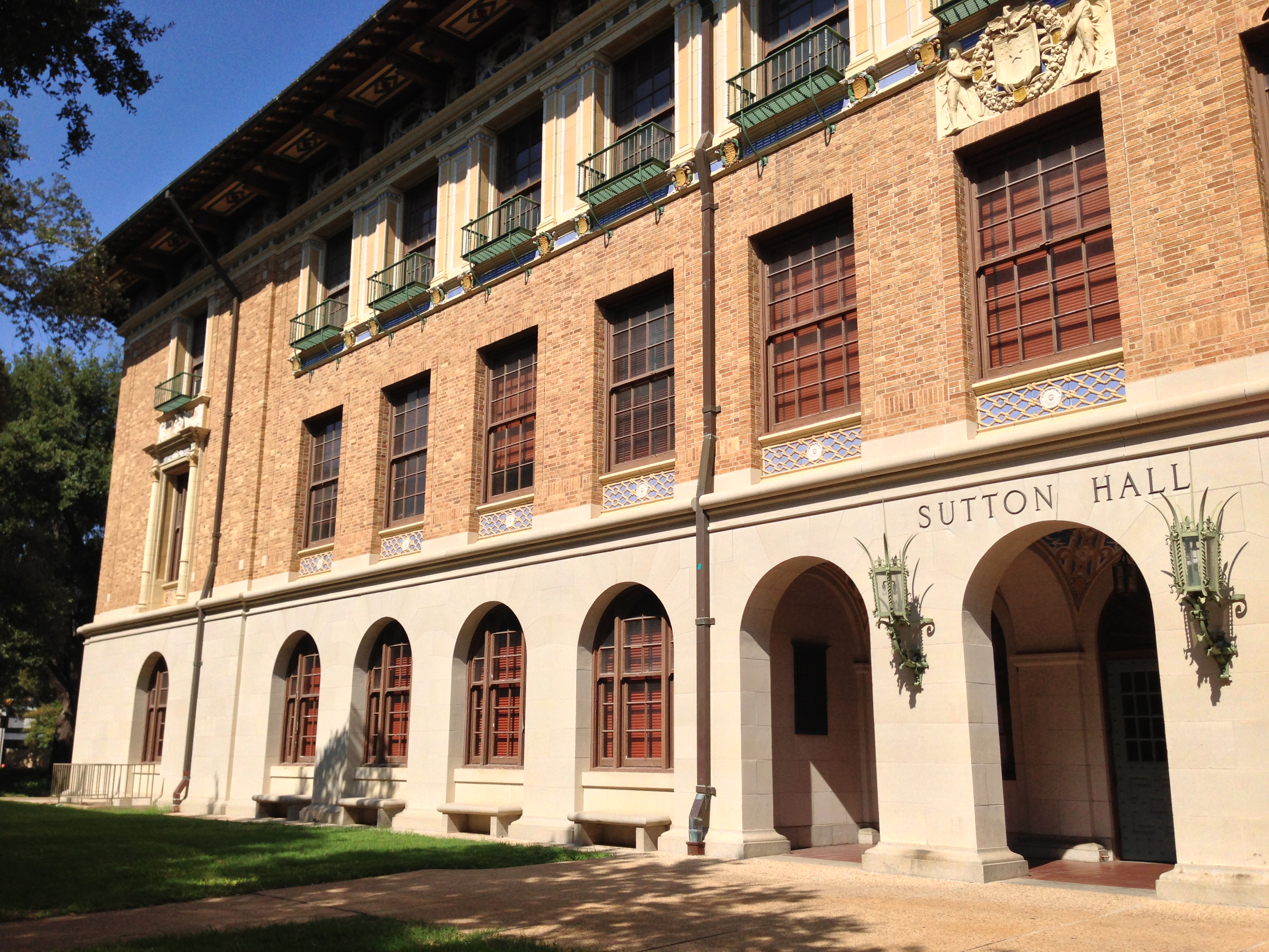 Photo taken from south lawn